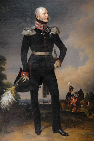 Ernest Augustus I, king of Hannover